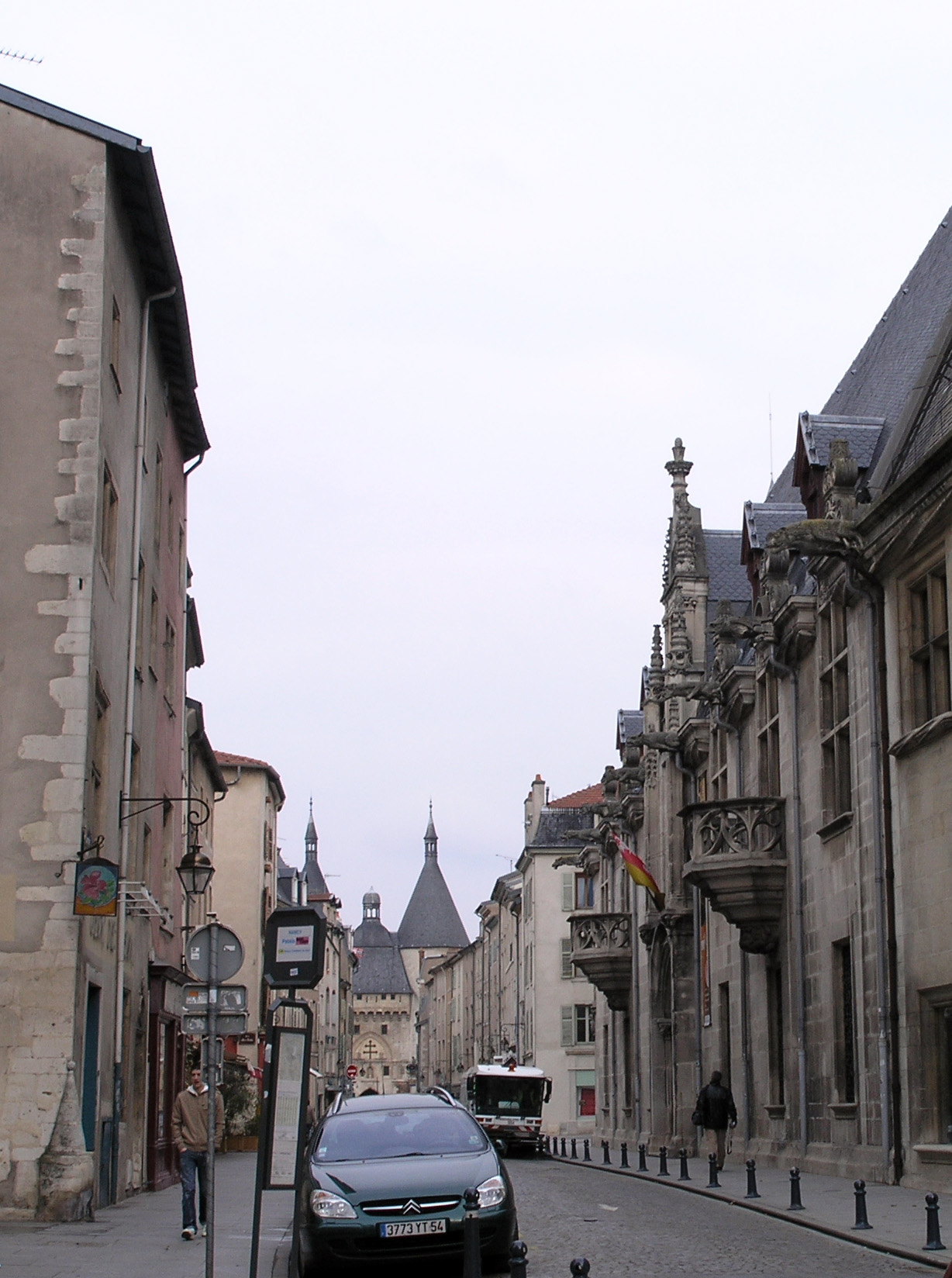 Main facade of the Palais ducal (Musée lorrain) in Nancy, France. Photograph taken by Marsyas 15:27, 25 February 2006 (UTC)